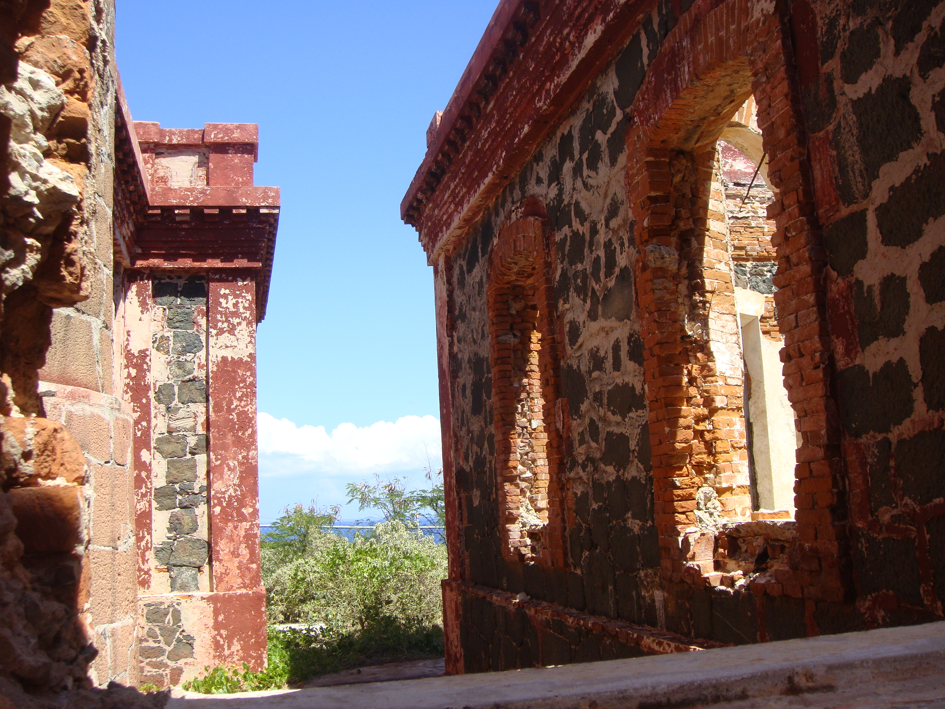 Faro Isla de Culebritas, Isla Culebrita Culebra